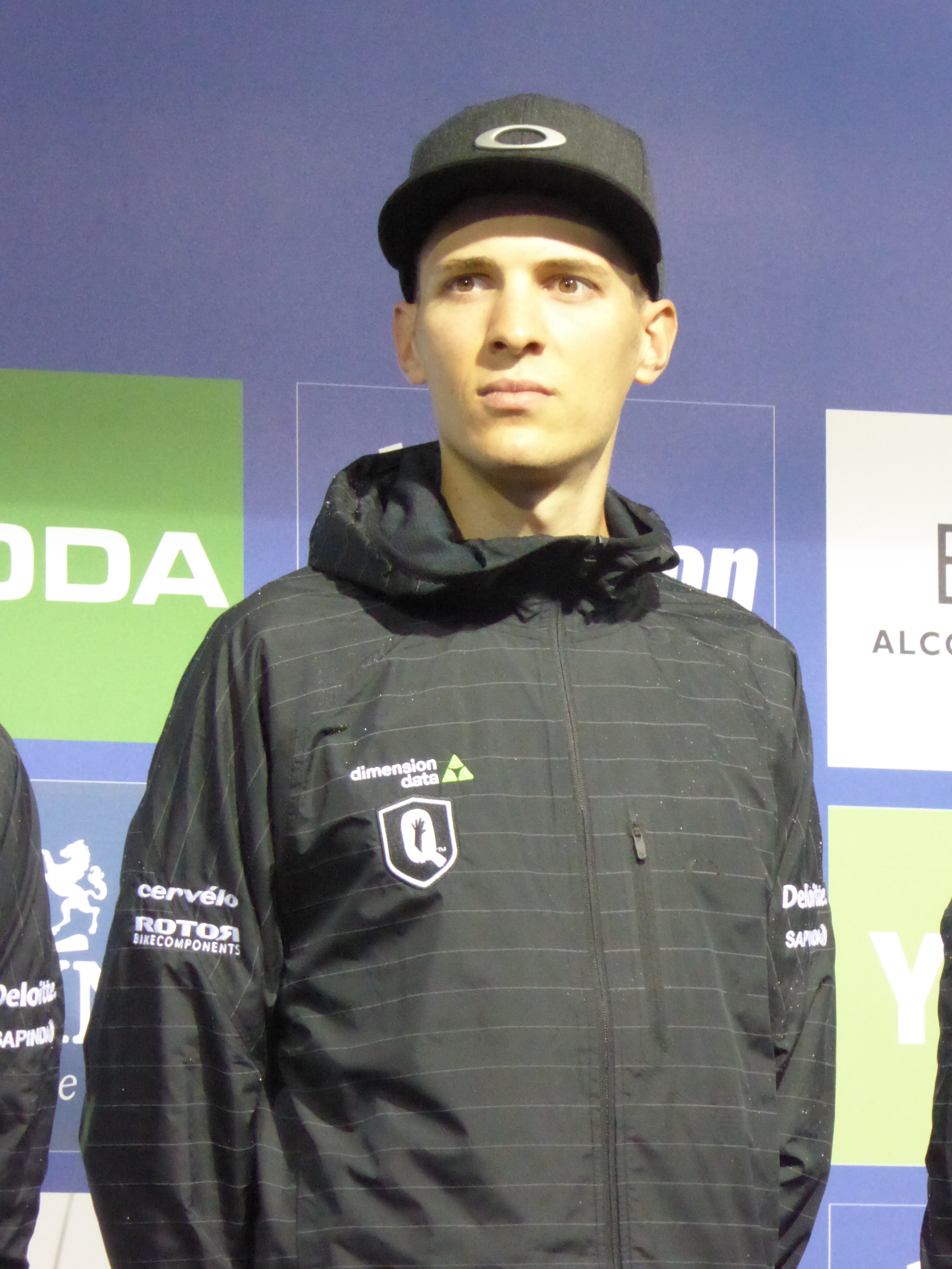 Johann van Zyl (Team Dimension Data), pictured at the 2016 Tour of Britain team presentation in Glasgow on 3 September 2016.